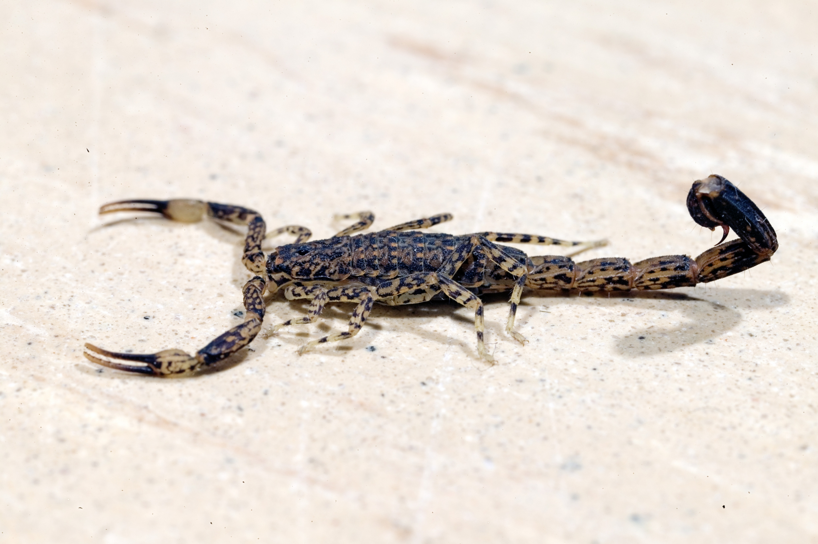 Little Marbled Scorpion (Lychas marmoreus) growing 25-35mm. Across southern Australia this species is found under bark, rocks and in leaf litter (and sometimes in houses).